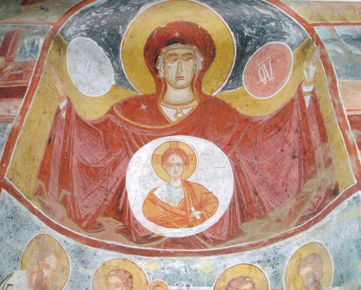 Archangel Michael Church in Benche, Platytera Fresco